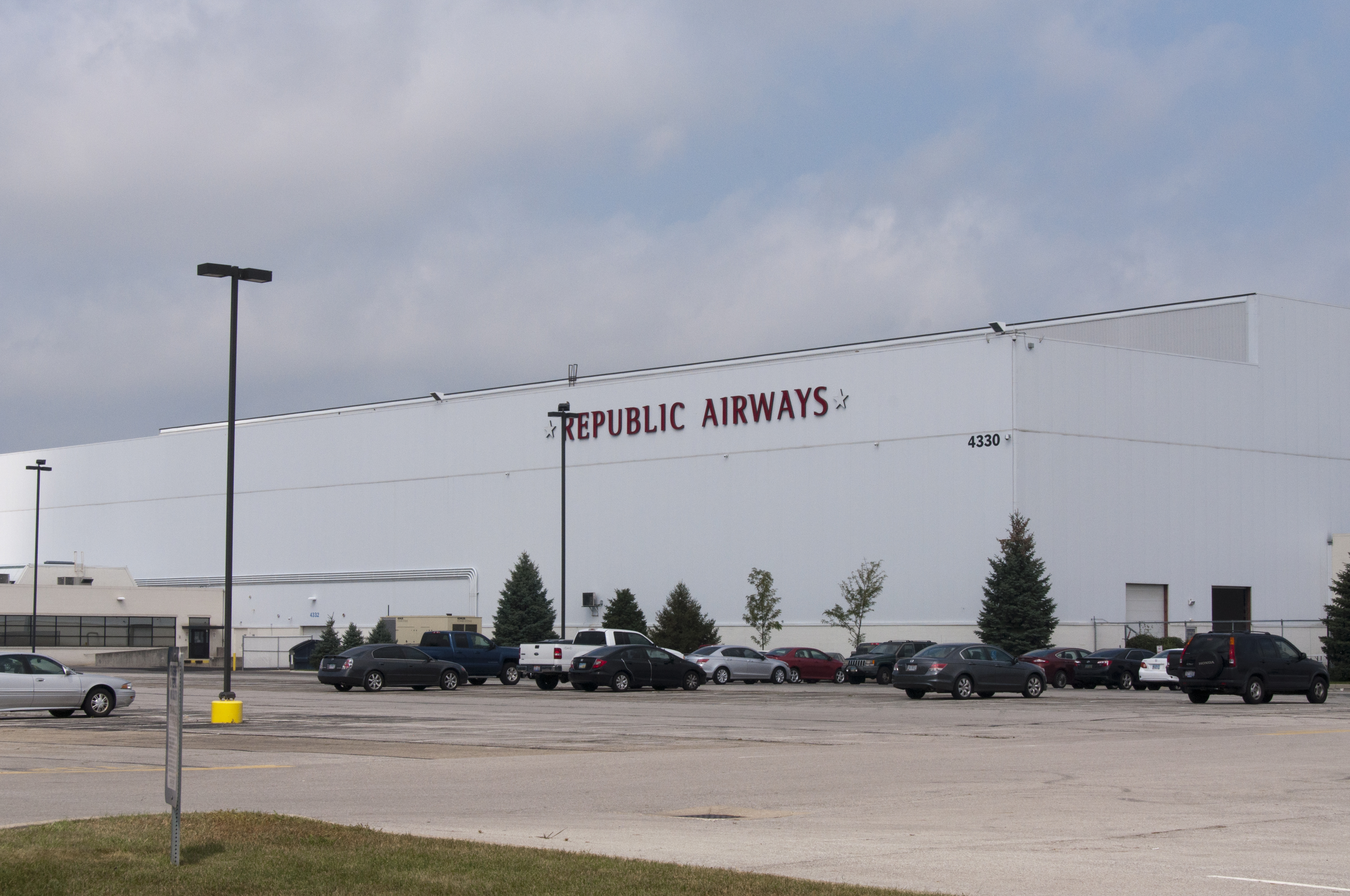 Republic Airlines Crew Base in Columbus, Ohio.